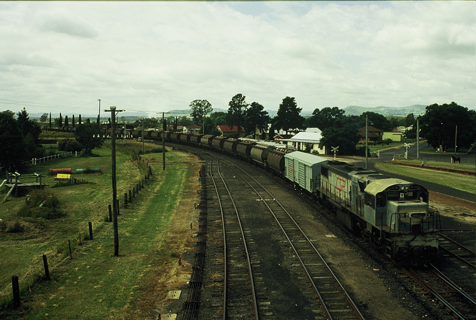 QR loco 1576 hauls a train of empty grain wagons westbound at Helidon, 1987